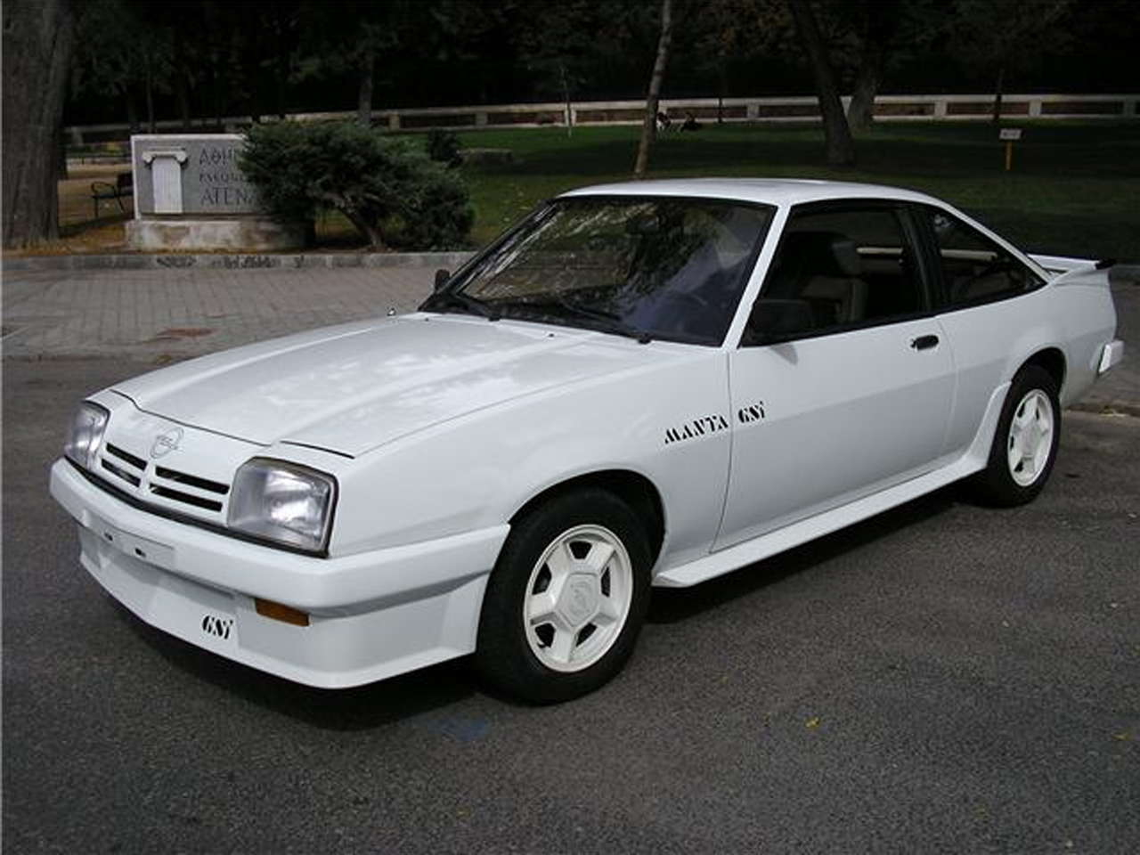 An Sport Car